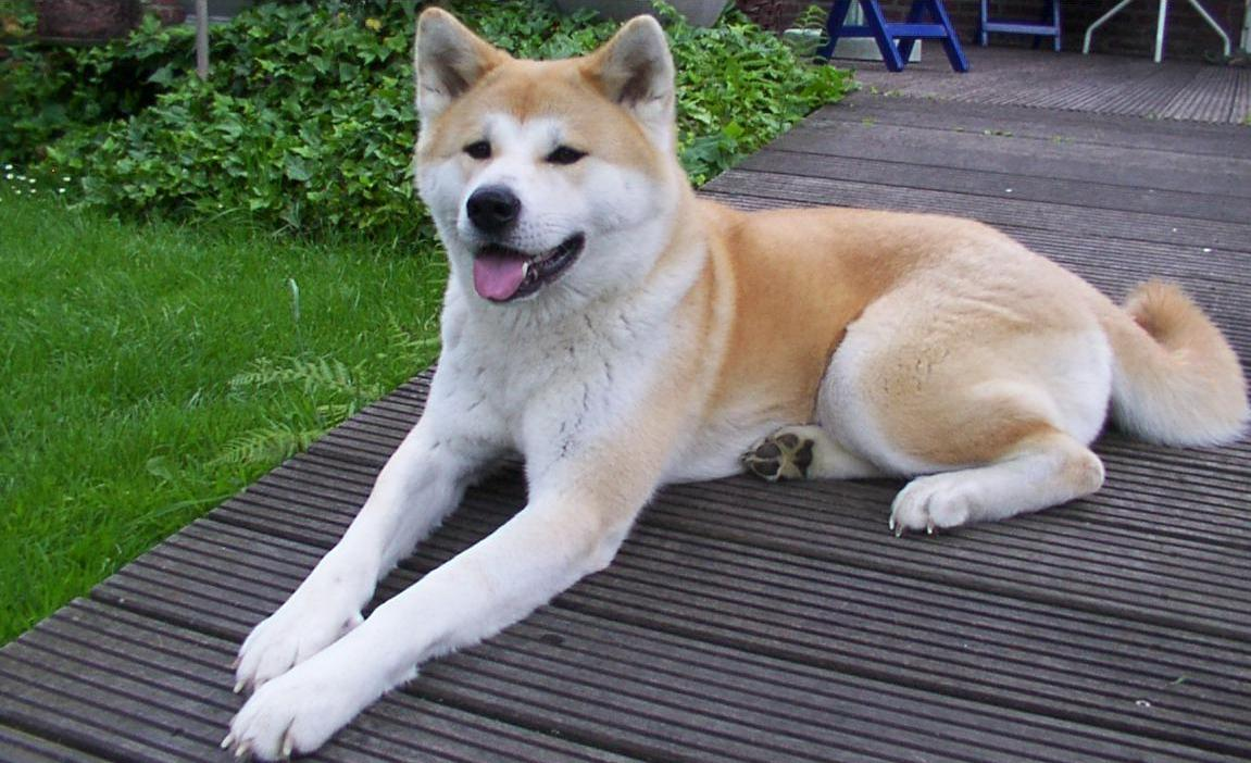 Japanese Akita-Inu.